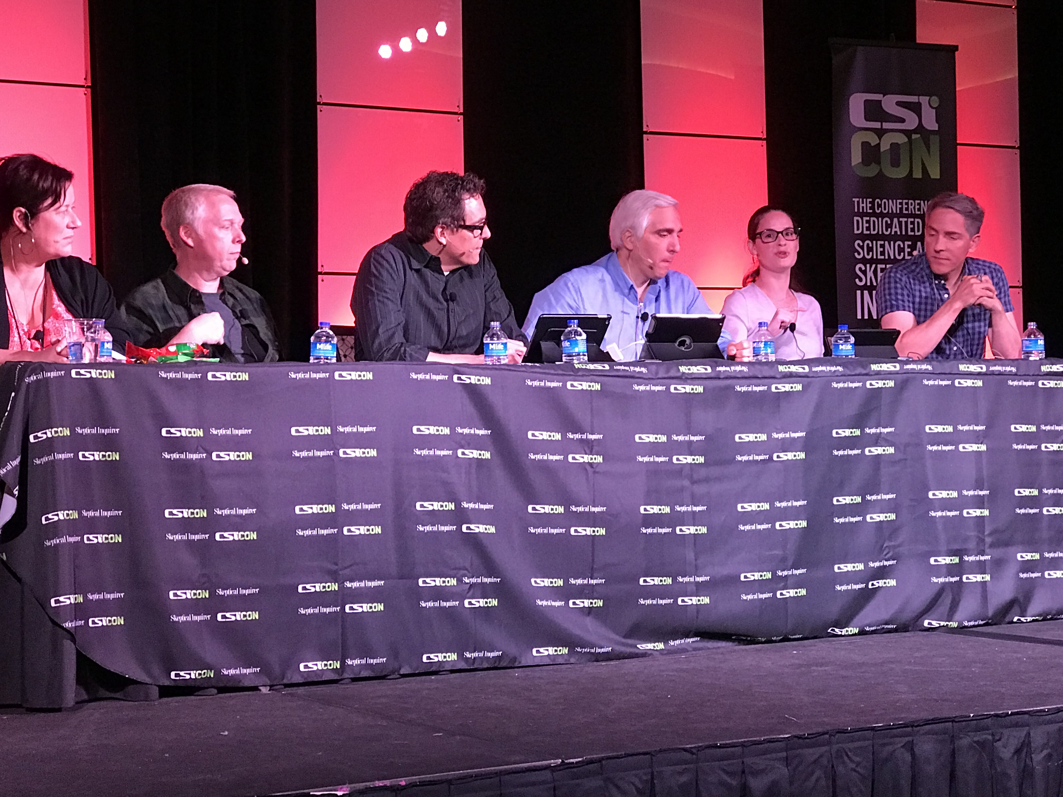 SGU cast at CSICon 2017 in Las Vegas